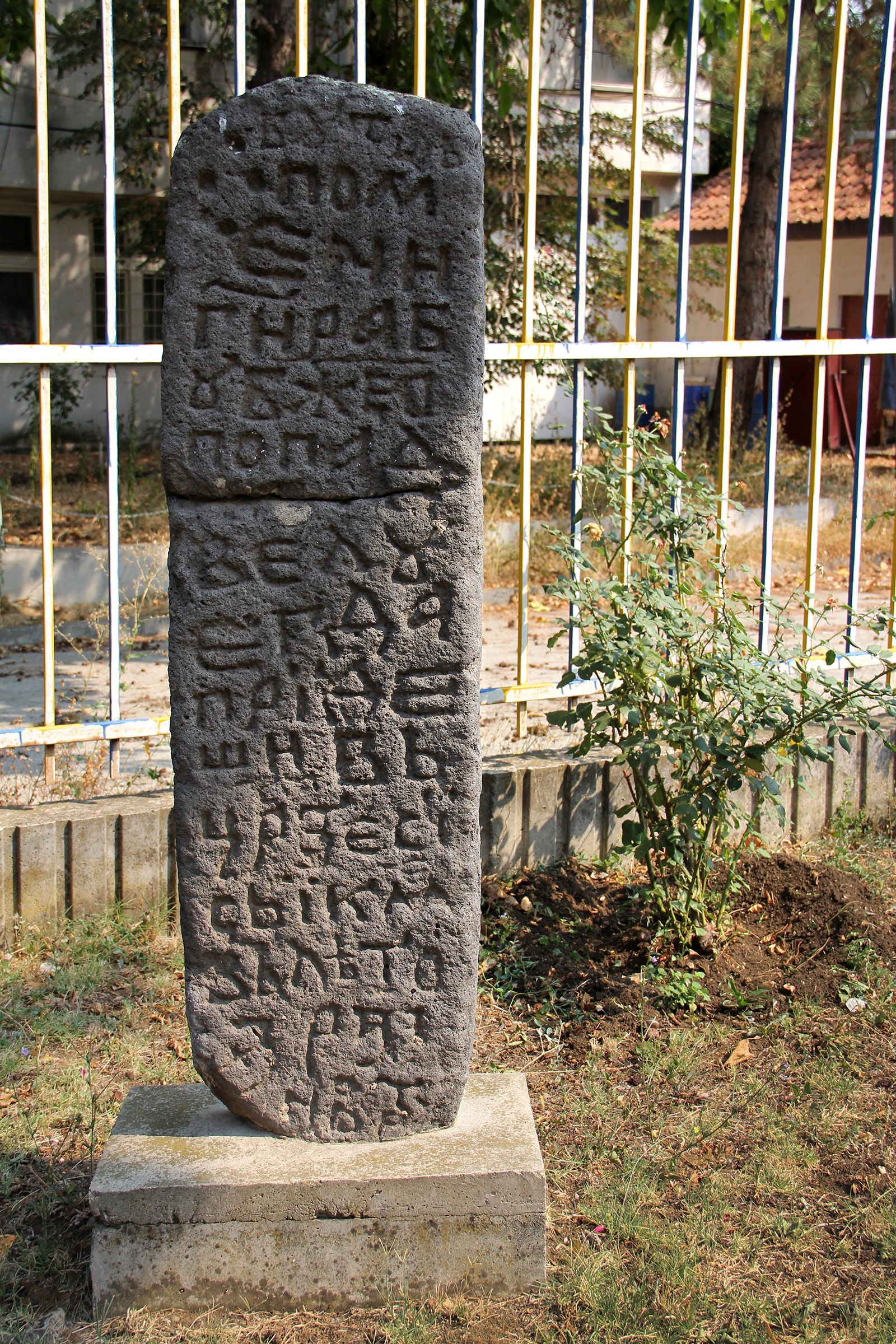 A tombstone with inscription in Cyrillic, the National Museum in Kumanovo